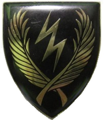 SADF 11 SAI badge